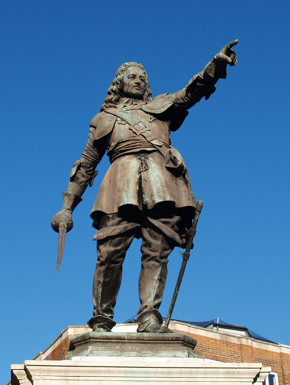 Statue of John Hampden, taken in Aylesbury town centre. Statue was commemorated in 1912.[1][2]